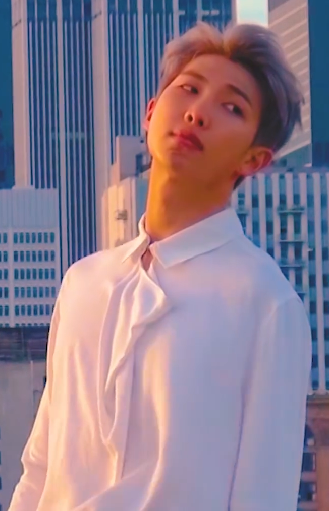 RM in a photo shoot for Dispatch in November 2017, in Los Angeles, California, USA